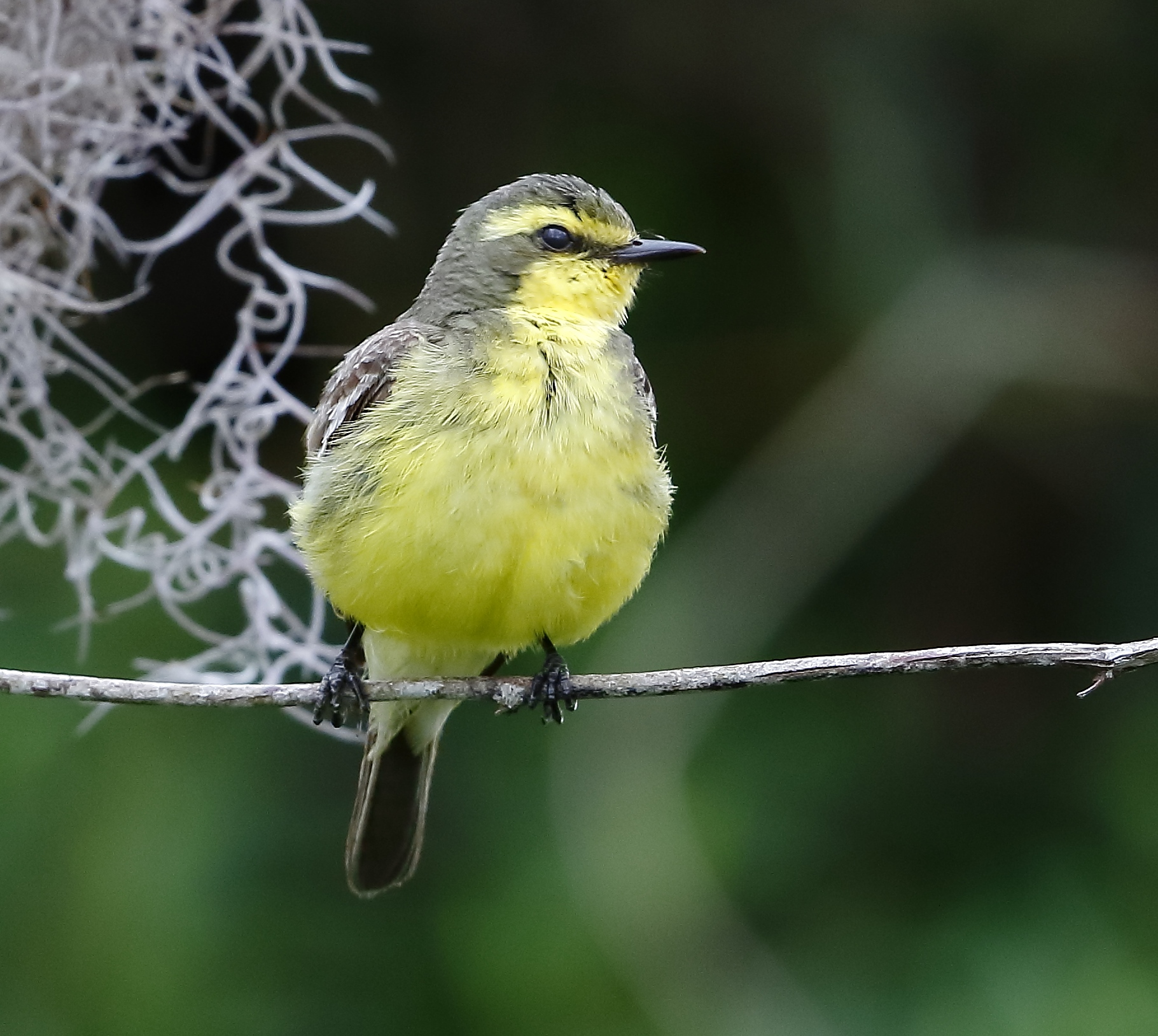 Yellow-browed tyrant at Iberá Marshes, Corrientes, Argentina